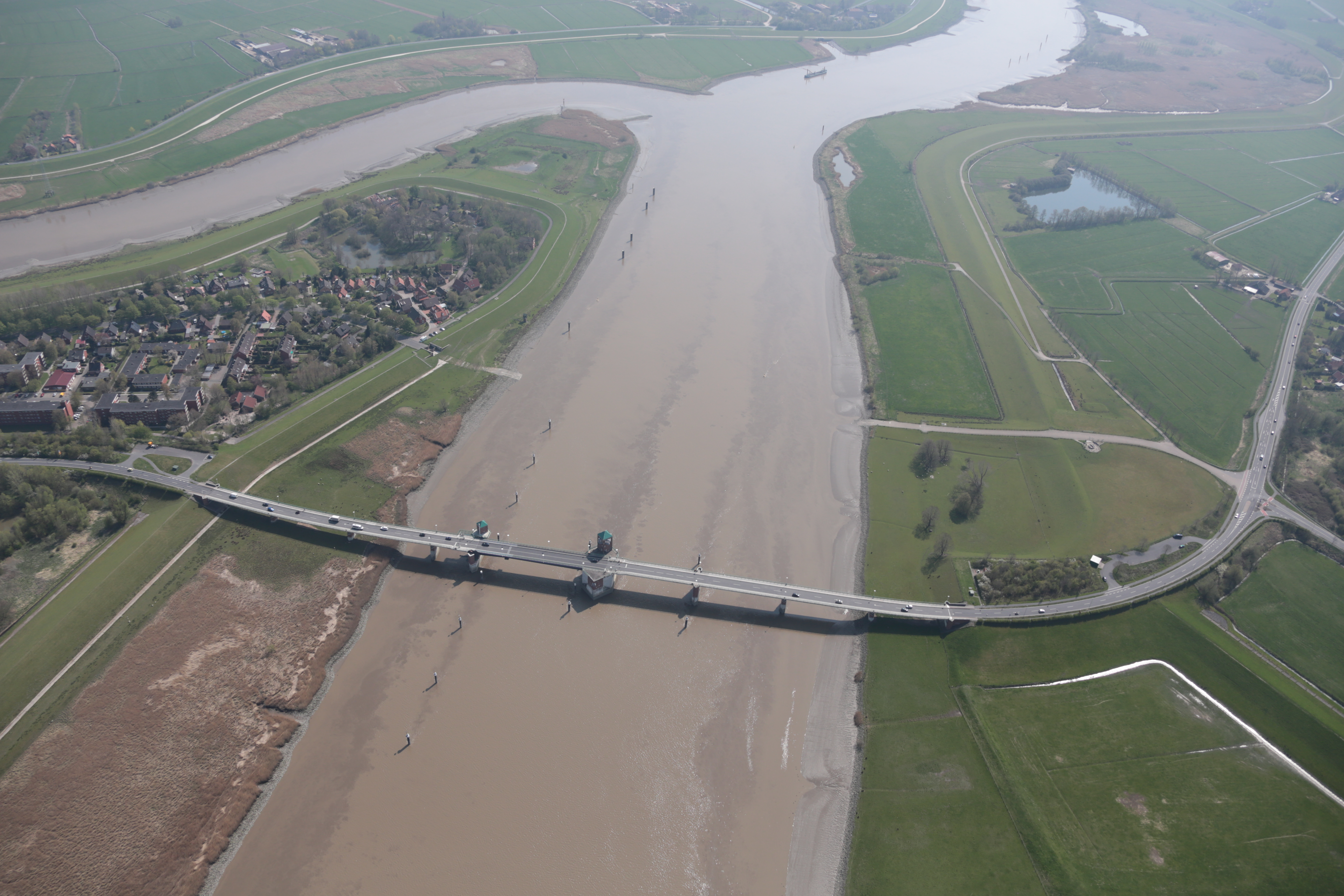 Fotoflug von Nordholz-Spieka nach Oldenburg und Papenburg This photo was taken by Alchemist-hp. If you use one of my photos, an email (account needed) or a message or direct to: my email account would be greatly appreciated. Please note the license terms. Other licensing terms can get discussed, too. This file is copyrighted and has been released under a license which is incompatible with Facebook's licensing terms. It is not permitted to upload this file to Facebook.